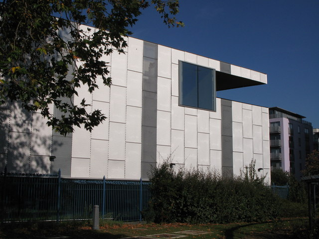 The Stephen Lawrence Centre, Deptford. A new educational facility, named after a local murder victim, built in 2007 on the site of a disused water pumping station.